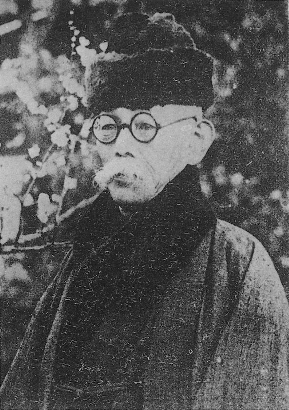 Portrait of Tsubouchi Shoyo (坪内逍遥, 1859 – 1935)